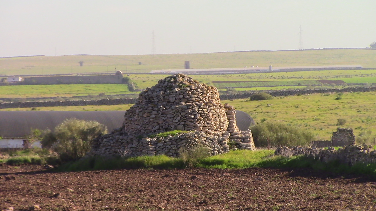 A Tazota, area of Sidi Abed and Awlad Aissa, Province of el-Jadida, Morocco